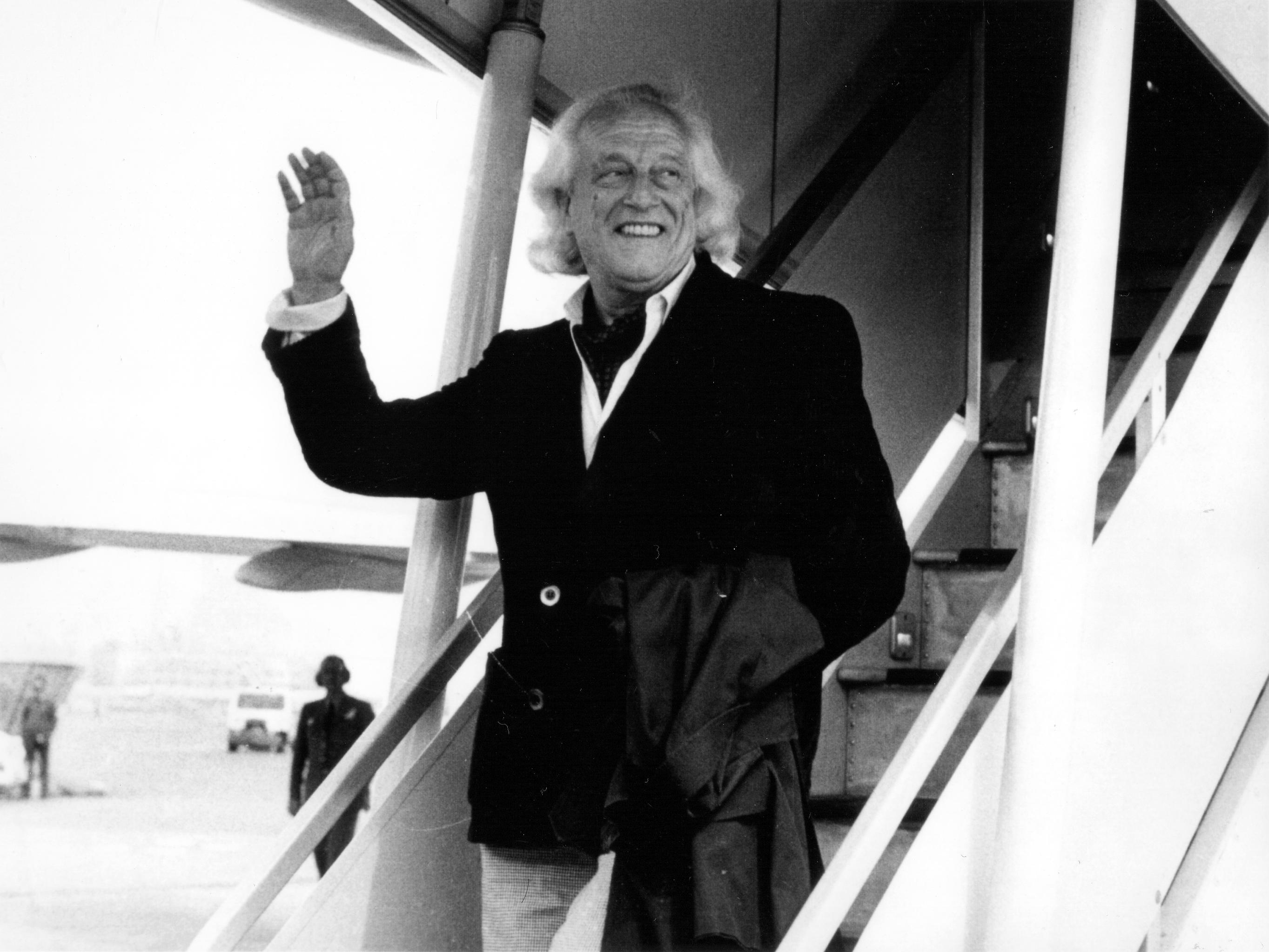 Rafael Alberti descending from an Iberia airplane (1977).